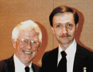 I declare that I am the creator of this photo and that I am in possession and ownership of the photographic negative of this photo.